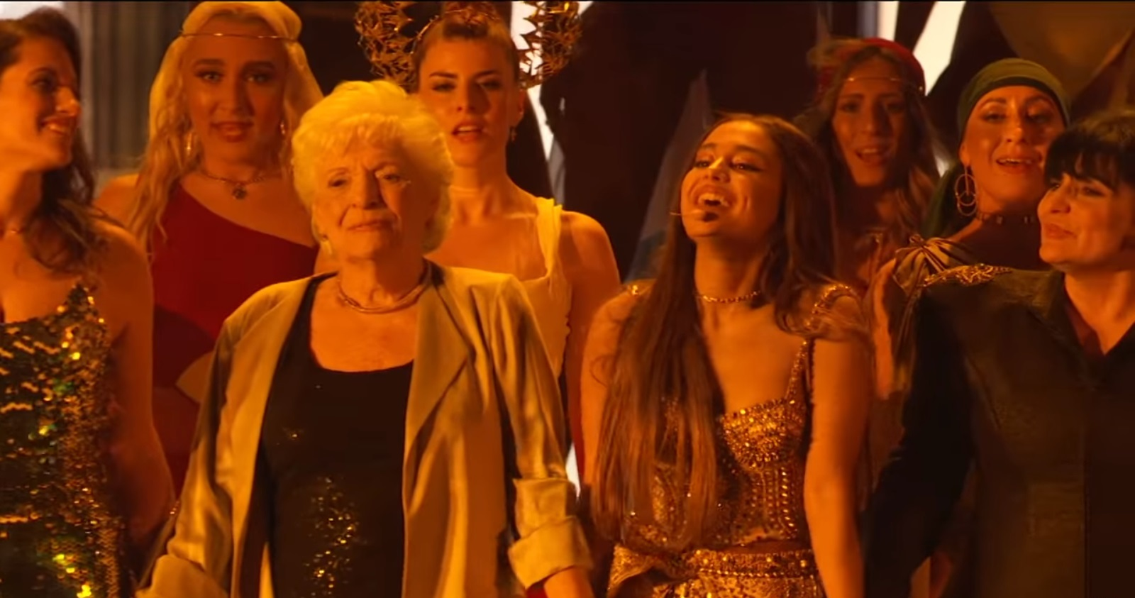 Ariana Grande performs "God Is A Woman" at the 2018 Video Music Awards in New York City.